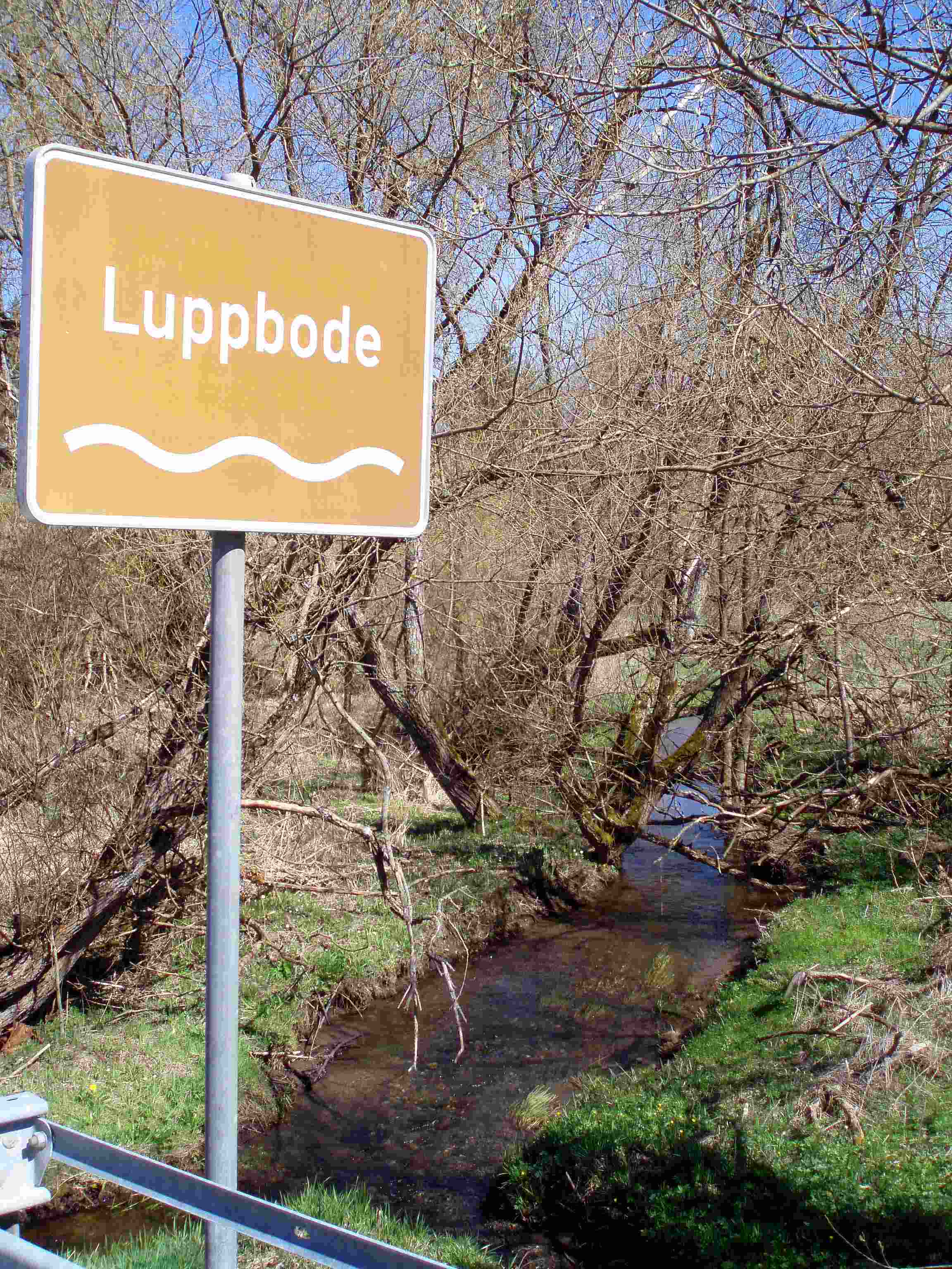 The Luppbode stream near Allrode, Harz, Germany